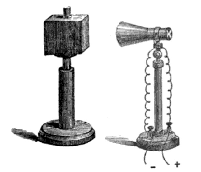 This is a drawing of a Leslie Cube, a device for studying the radiant energy coming from a surface.